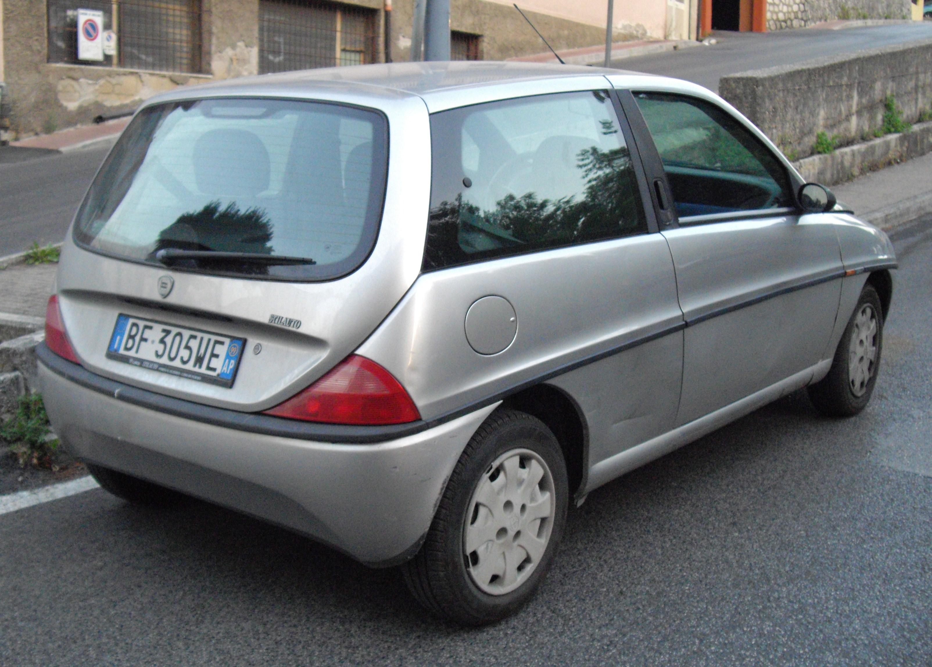 Lancia Y 1.2 Fire rear.JPG